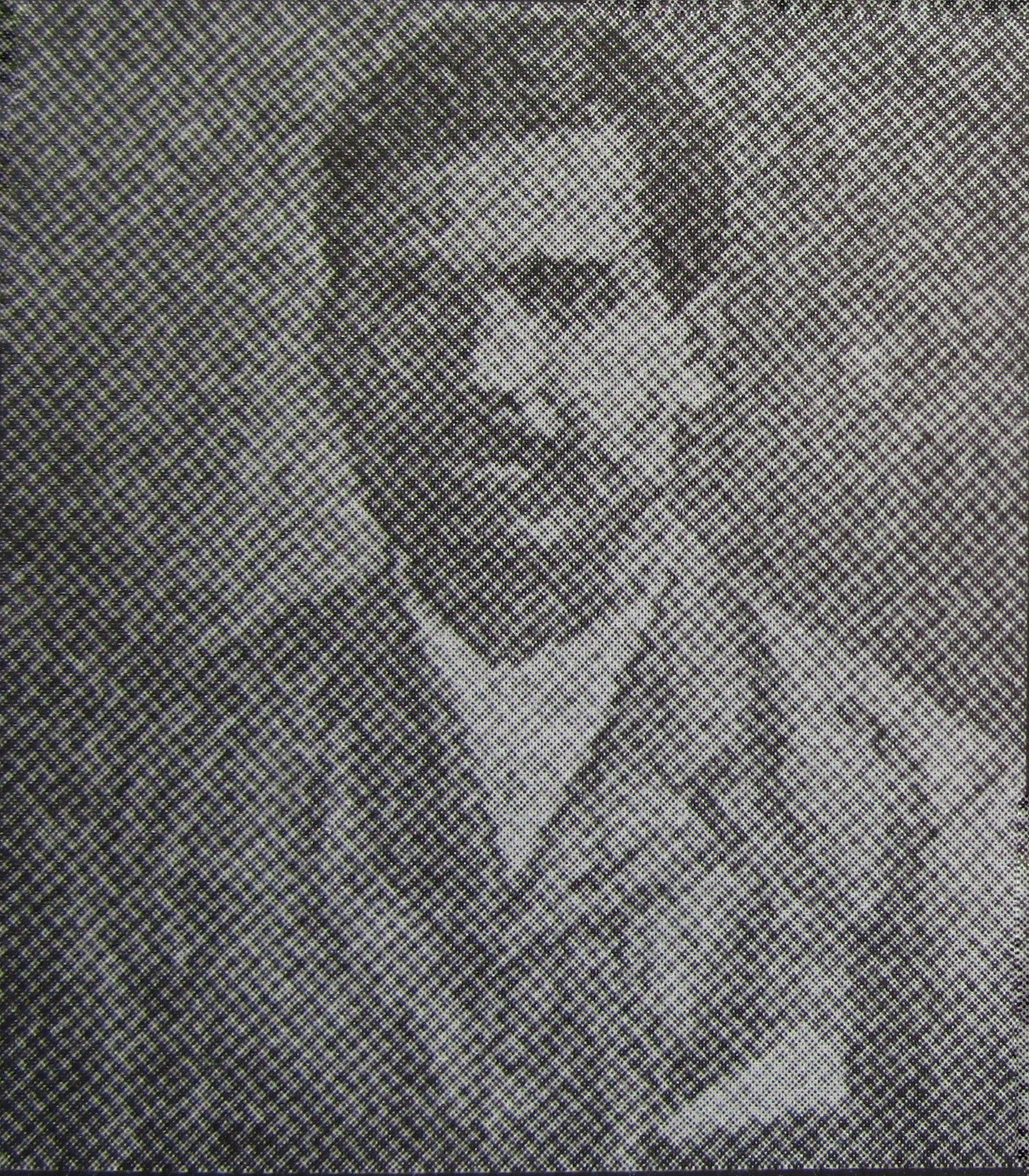 Mohinishankar Roy